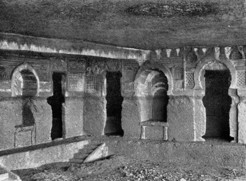 Nadsur Vihara cave